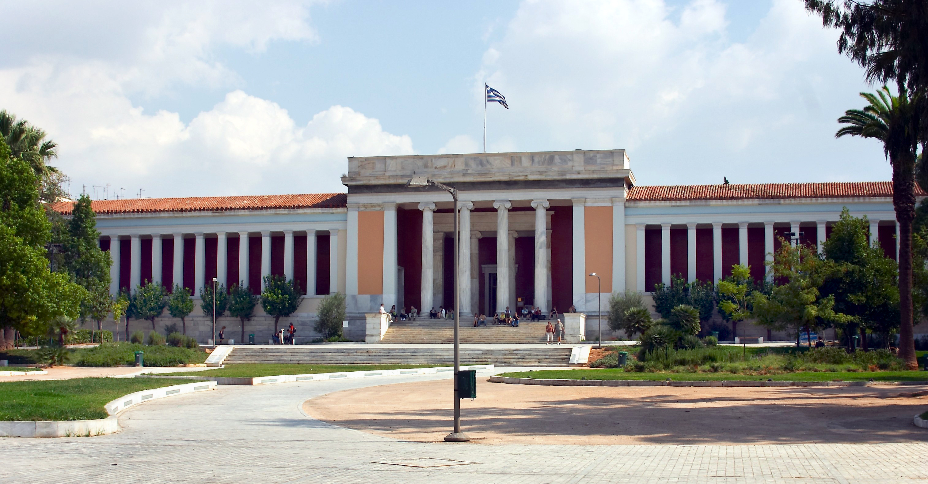 National Archeological Museum, Athens, Greece.